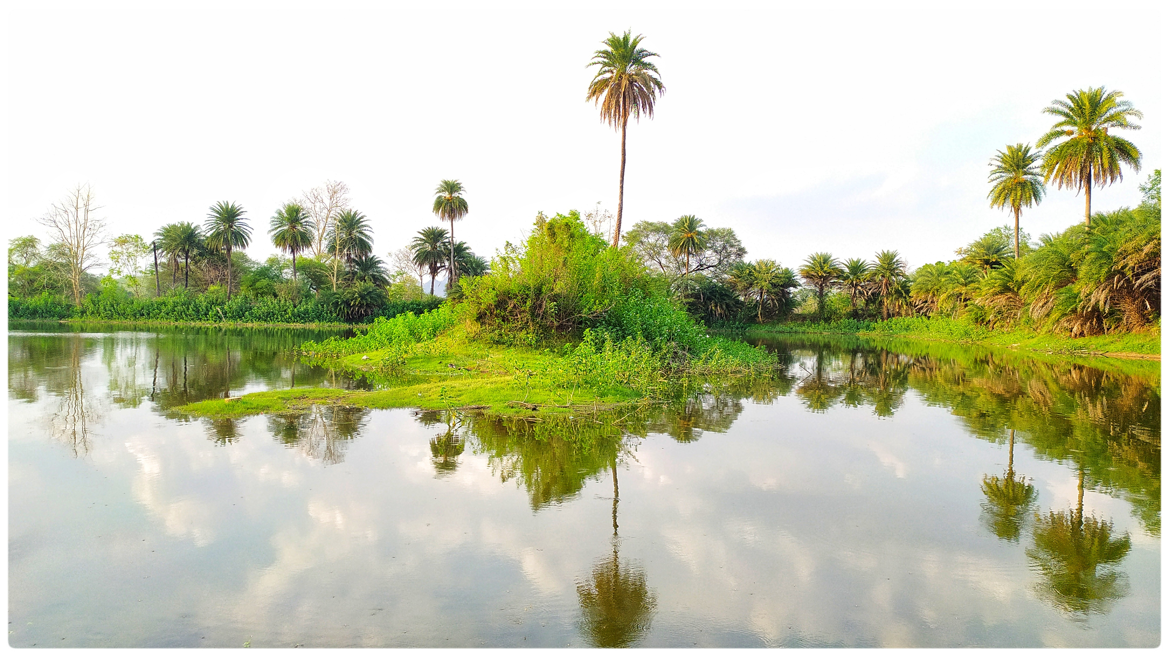 Dadhibaman Pokhari is the largest pond in the area.